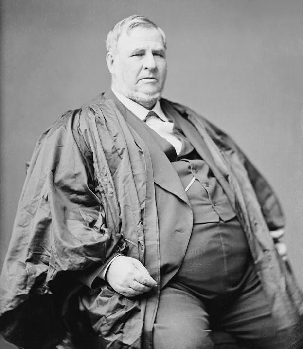 David Davis, Supreme Court Justice